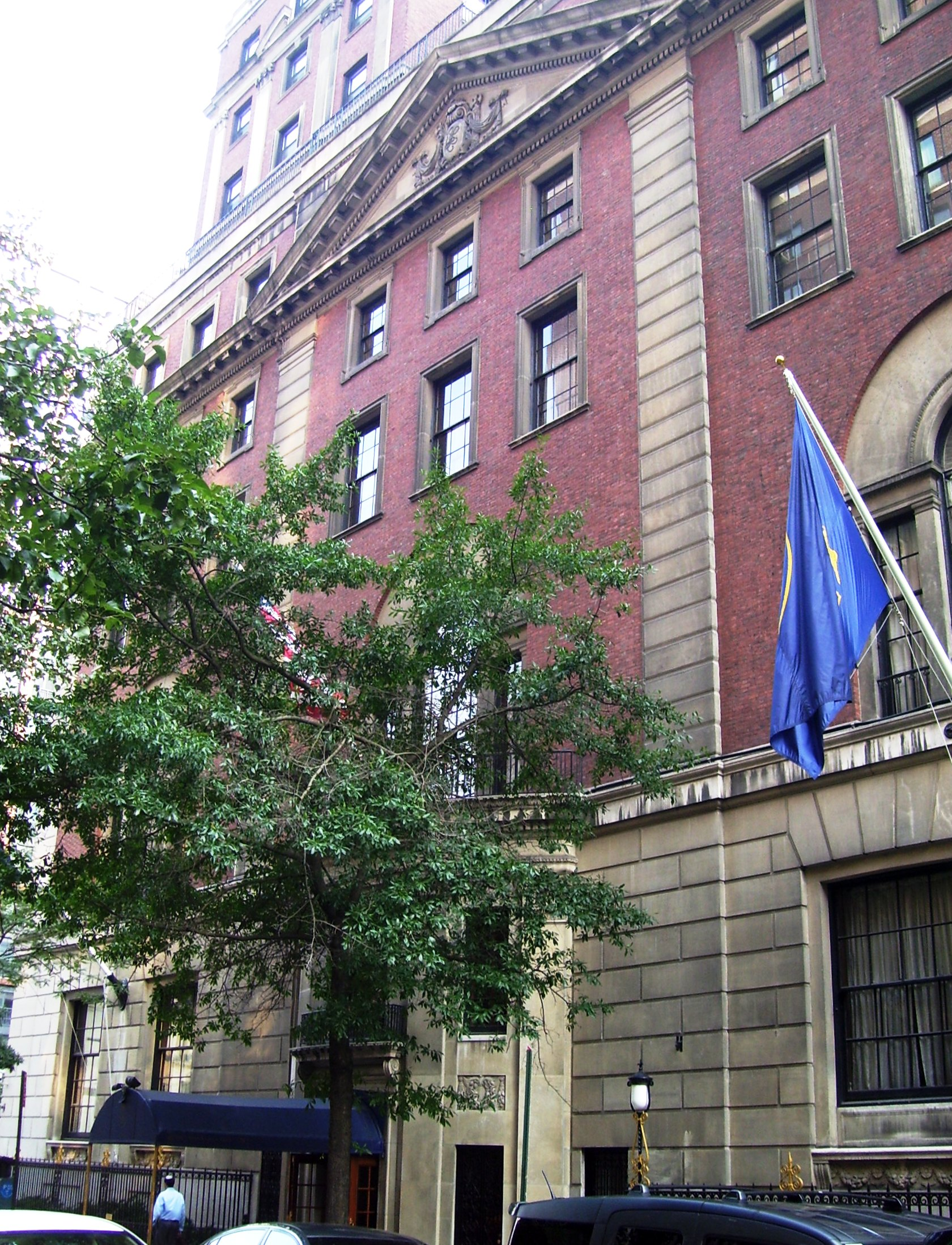 The Union League Club at 38 East 37th Street at the corner of Park Avenue in the Murray Hill neighborhood of Manhattan, New York City was built in 1931 and was designed by Morris & O'Connor in the neo-Georgian style. The club was an offshoot of the Union Club, and was founded in 1863 by departing Republicans who were upset about the Union Club's failure to expel sympathizers of the Confederacy from its ranks. (Source: AIA Guide to NYC (5th ed.))